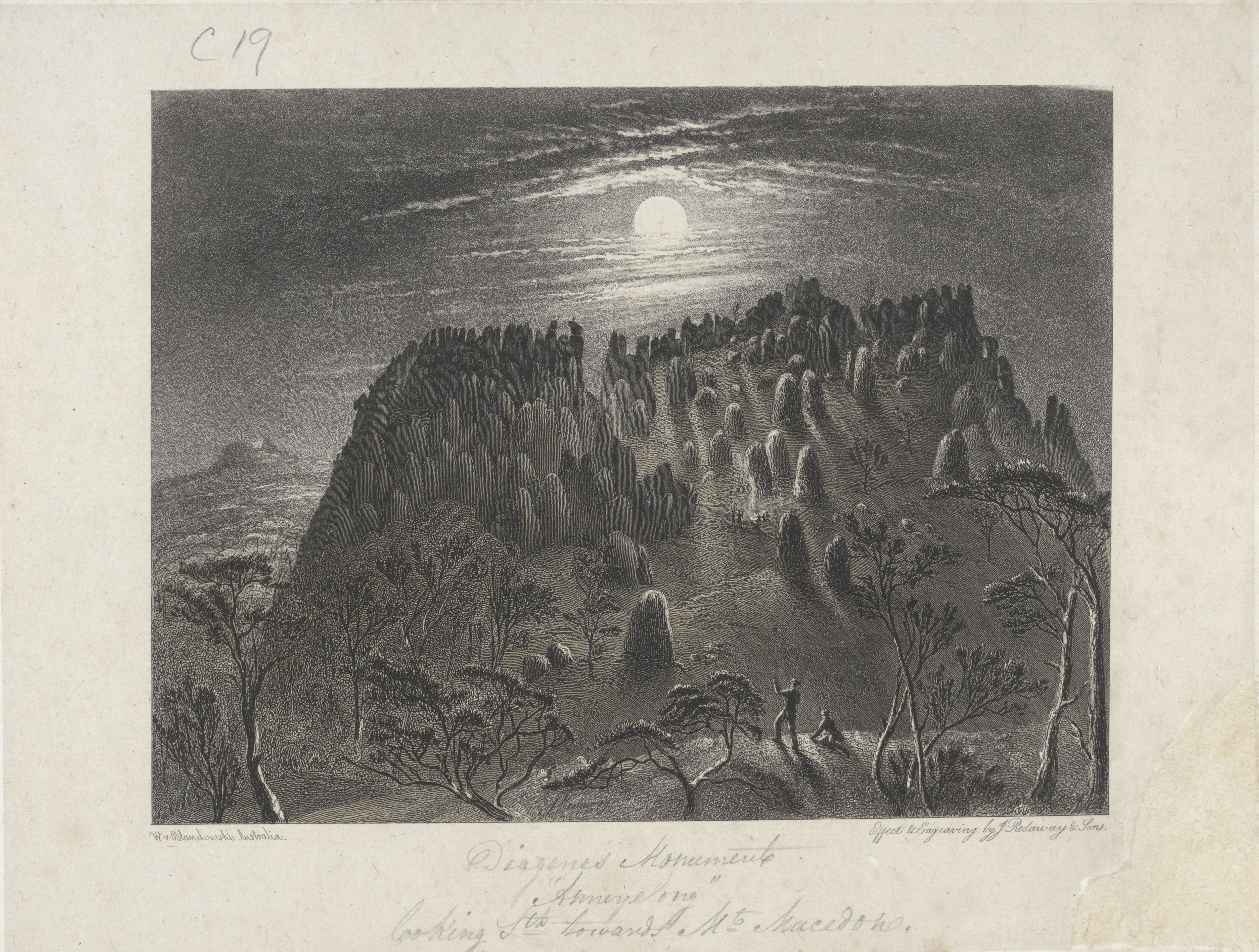 Engraving depicting Hanging Rock or Ngannelong (formerly also known as Diogenes Monument) by moonlight with settler colonists in the foreground and traditional owners in the background